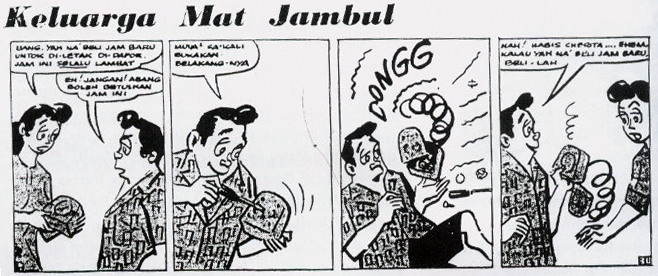 The comic strip ‘Keluarga Mat Jambul’ (Mat Jambul’s Family) by Raja Hamzah, from the Berita Harian, a Malaysian language newspaper; dated 14th May 1961. This series was said to be that language's first comic strip.